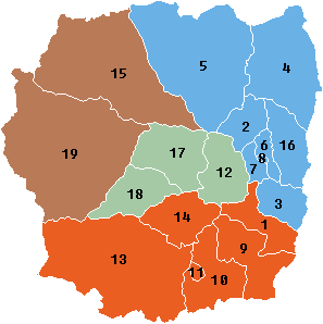 List of districts (fivondronana) in Antananarivo province with regions marked in different colours.